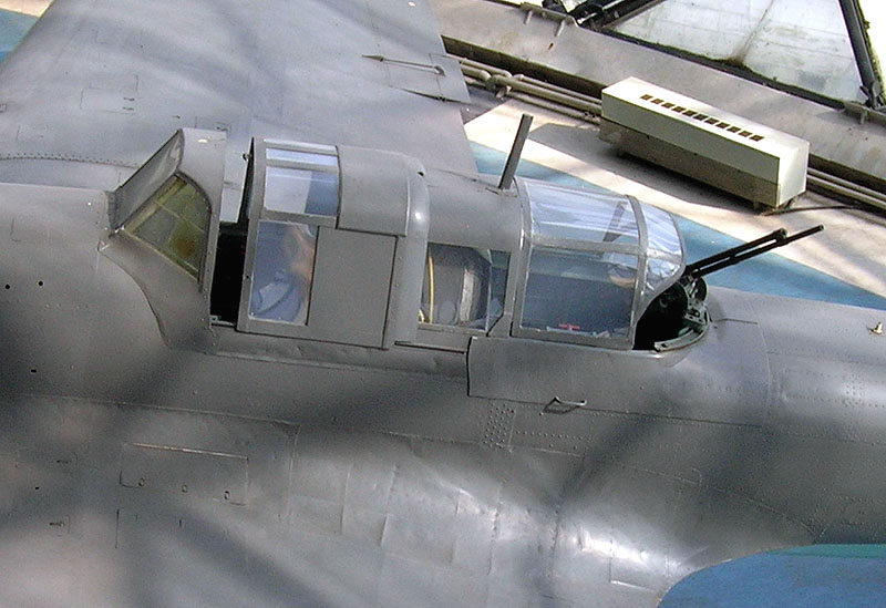 Il-2 cabin, Belgrade Aviation Museum, Serbia. Author of the picture is User:Marko M.